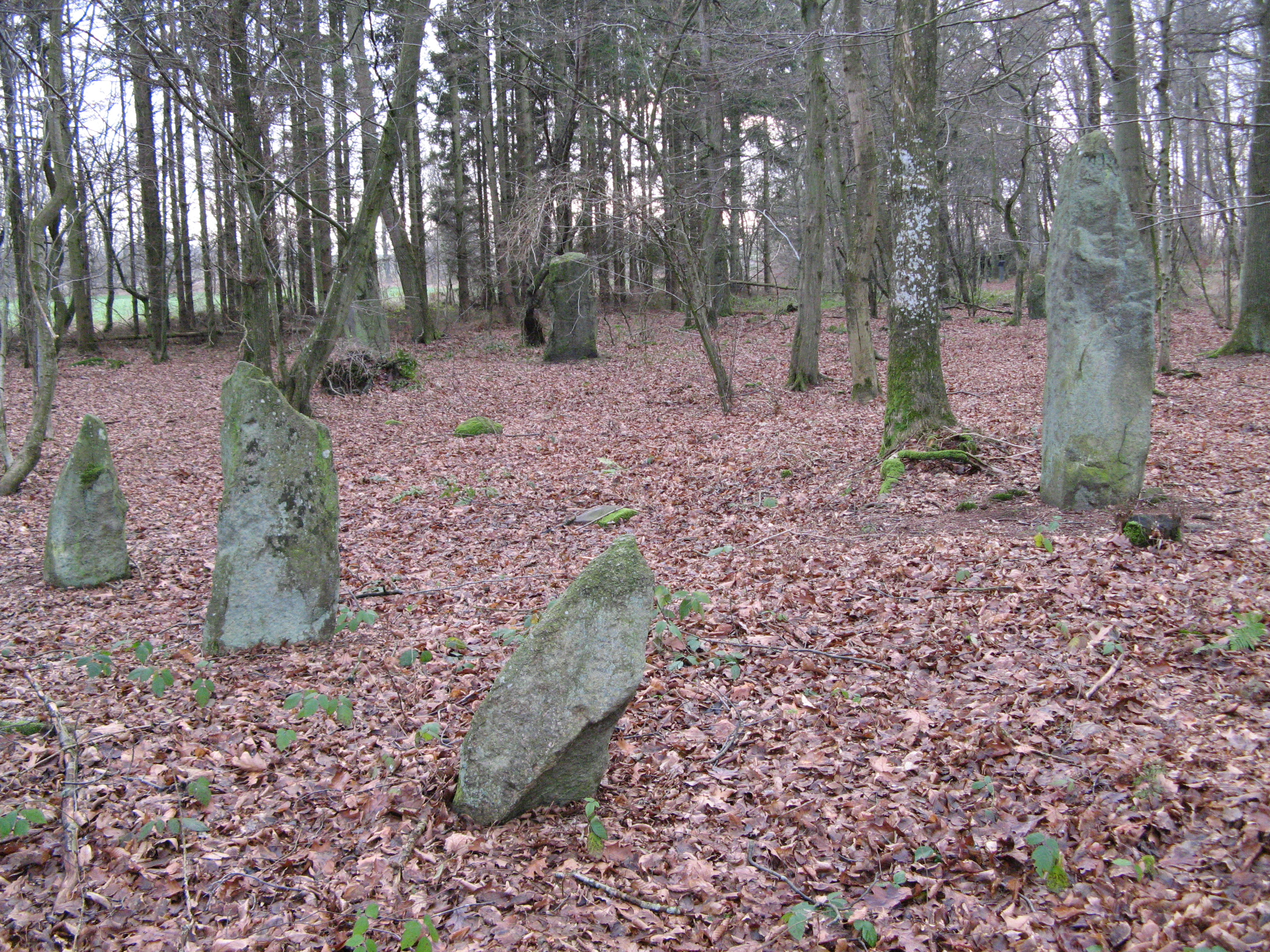 Gryet Bauta Stones, Bornholm